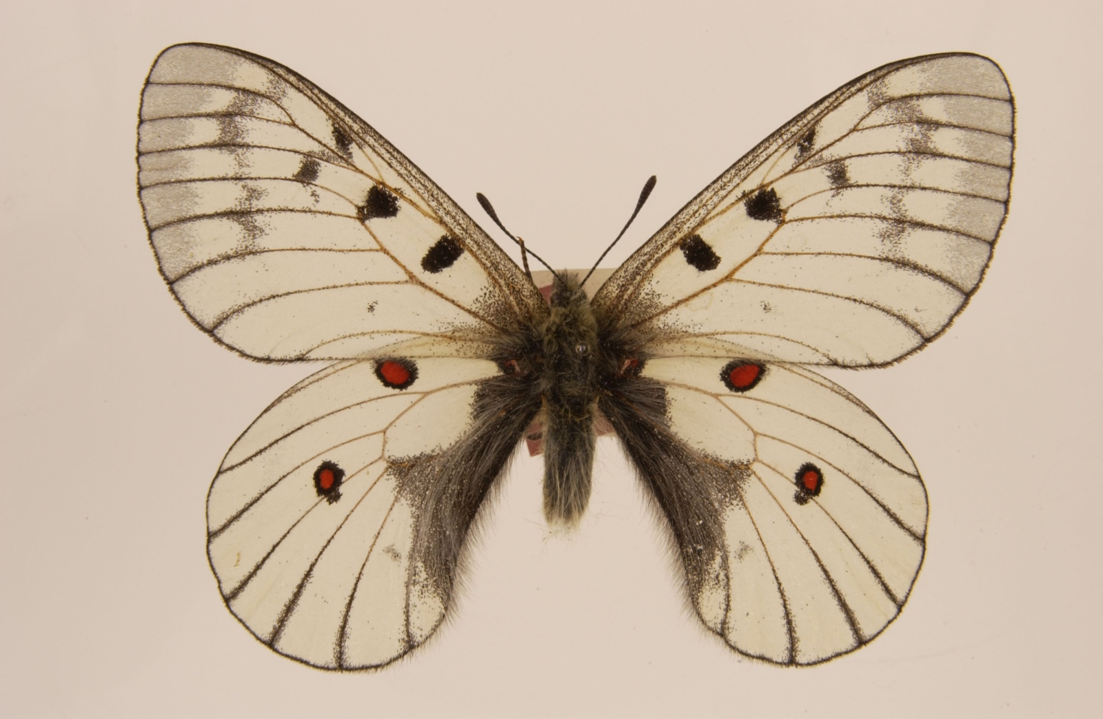 Parnassius bremeri Bremer, 1864 Male Kaukasus sept. Tindi, Rogos Mont. 4,000m. Anf.Aug 20 B-H. (Otto Bang-Haas) 15.10 1935. Peebles Collection, Ulster Museum Mr7312.